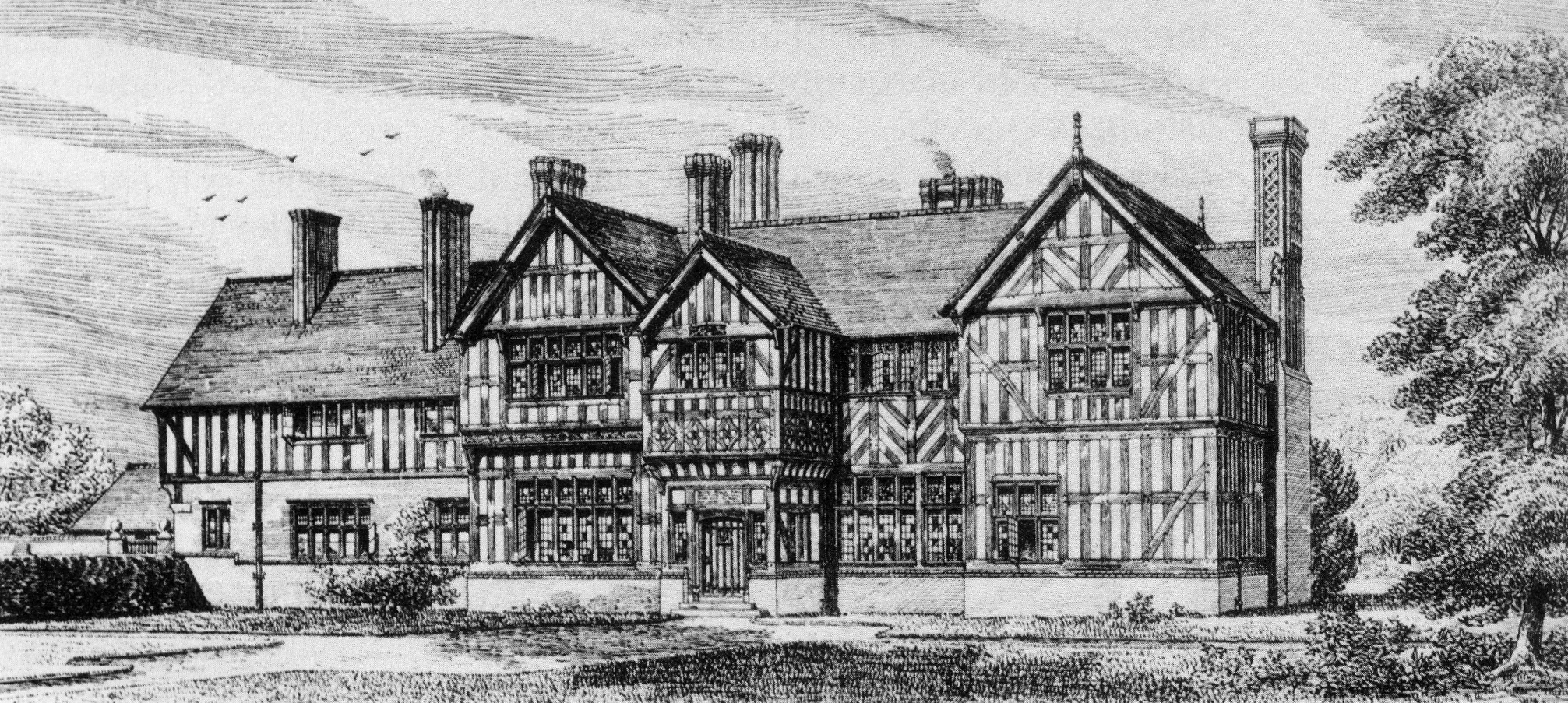 Scanned by the book by me. Drawing of Llannerch Panna, Penley, Flintshire in 1878-79 taken from Building News, 36, 1879, p. 198